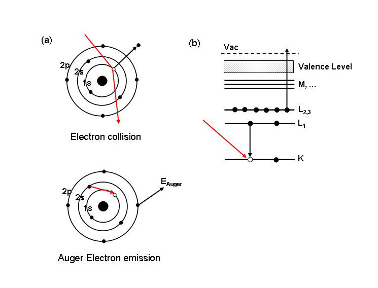 This is a series of schematic drawings of the Auger effect. Panel (a) provides a sequential view of Auger transitions in terms of atomic orbitals while panel (b) provides the same information in condensed format using spectroscopic notation.